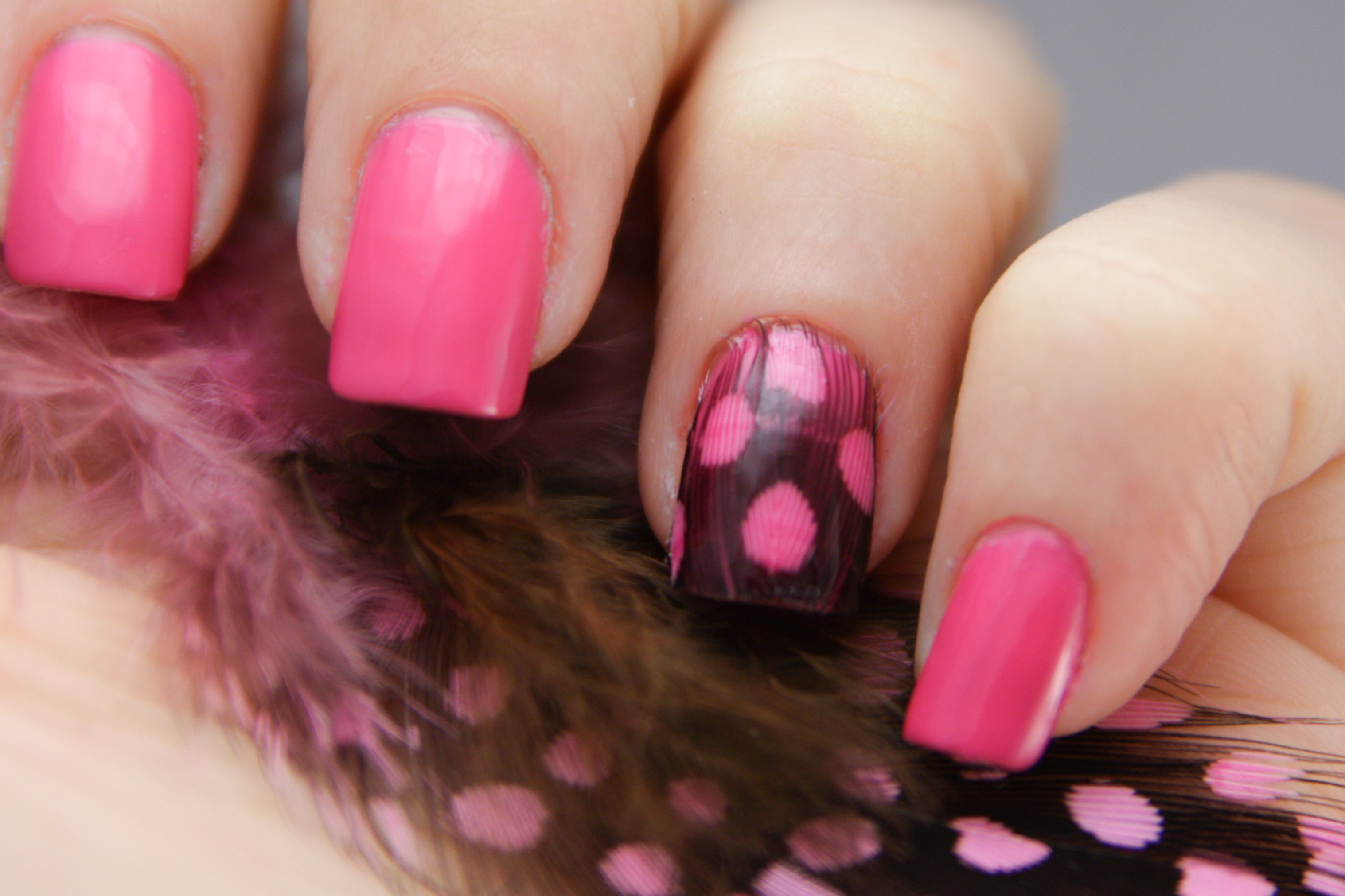 Nail art Feather - Colorama Flor do Deserto.